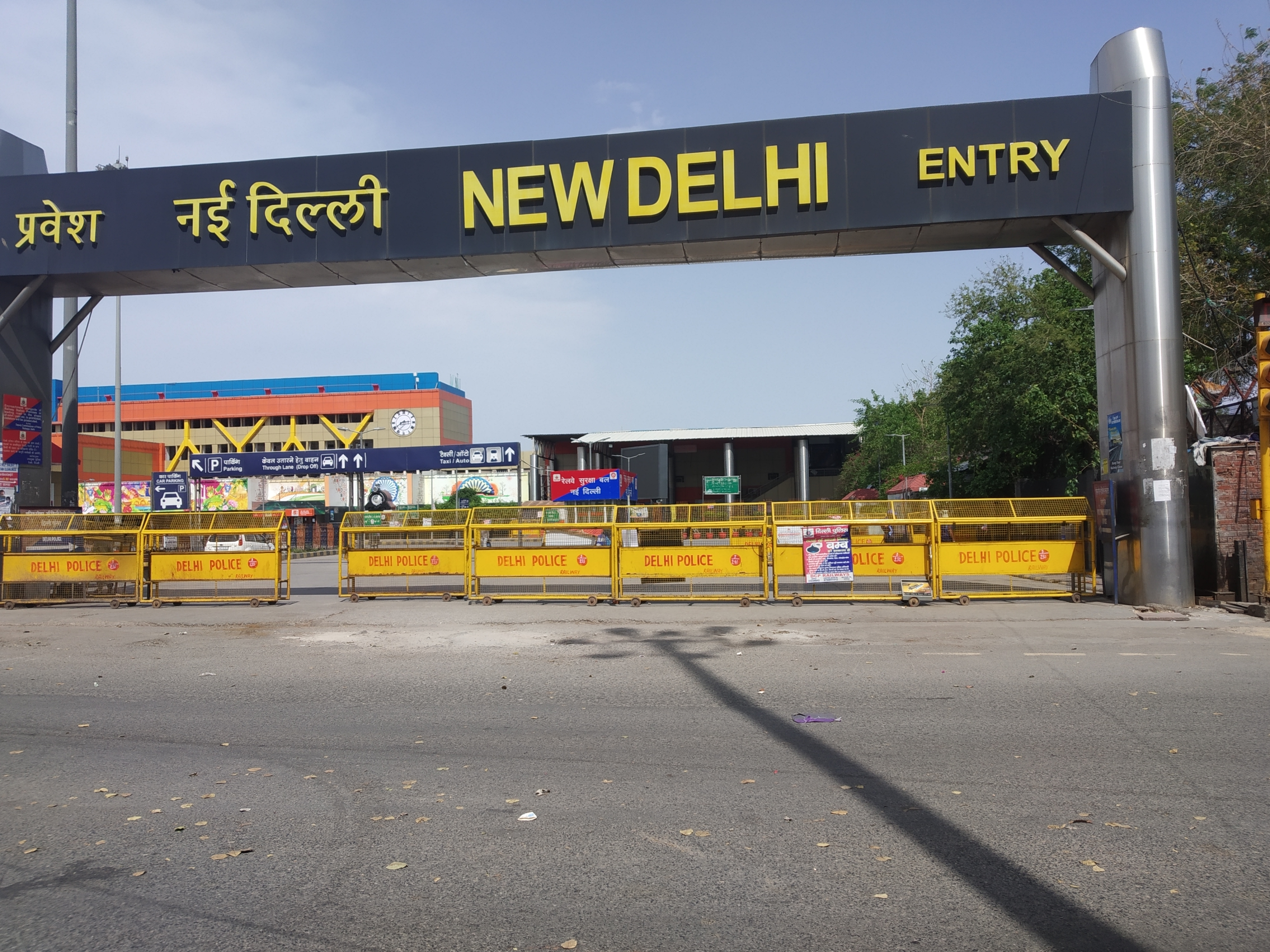 Empty streets and establishment closures during the COVID-19 pandemic in Delhi, location near New Delhi railway station, Paharganj side